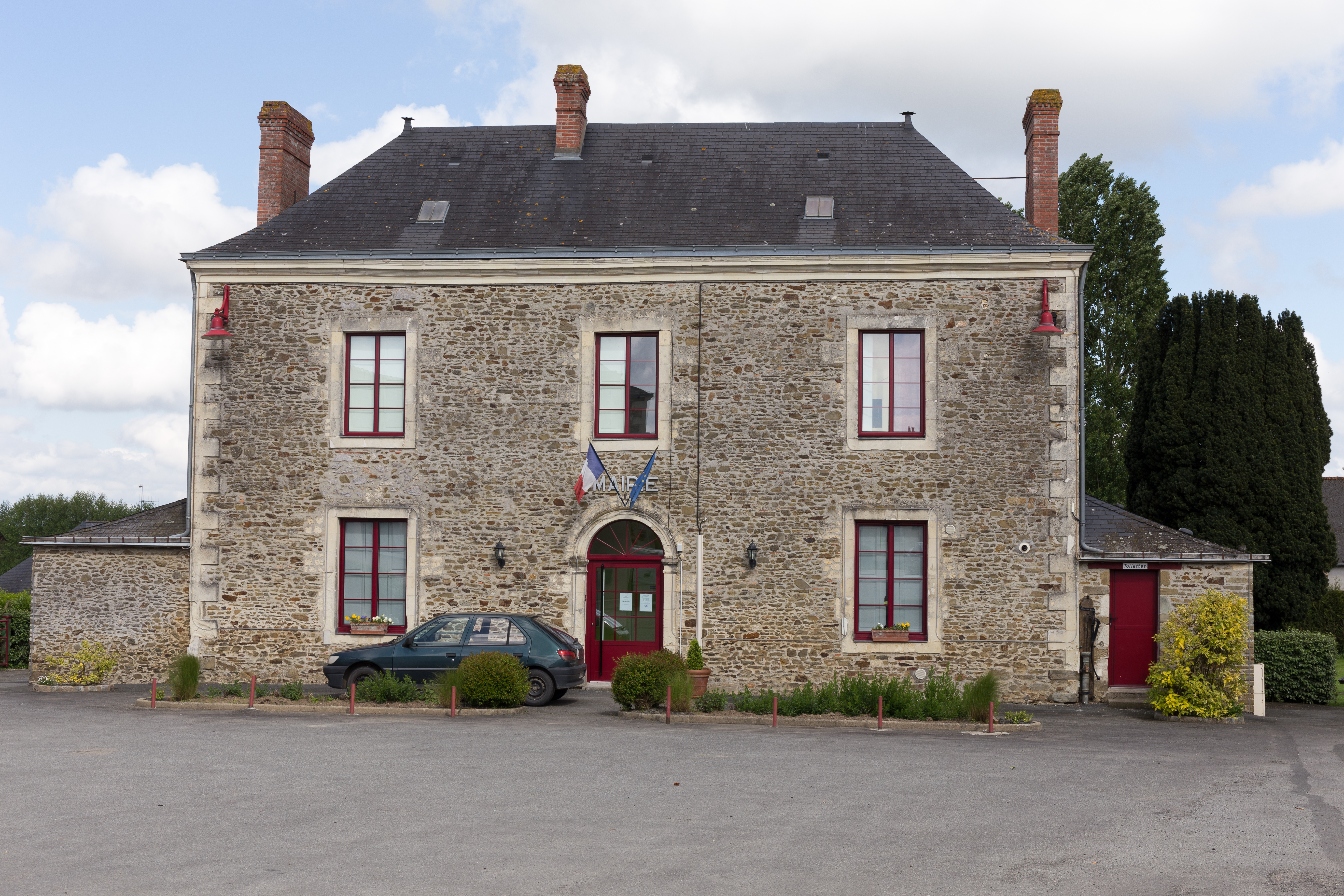 Town hall of Simplé.